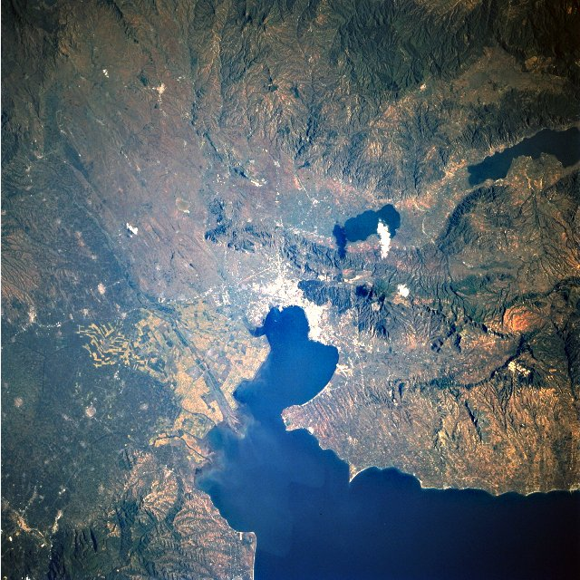 The largest city of Greek Macedonia, Thessaloniki is visible near the center of the image in this northeast-looking view. The city is located in northeast Greece on the Gulf of Thessaloniki, an inlet of the Aegean Sea. The city has excellent port facilities and is a major railroad, commercial, industrial, and financial center in the region. Two lakes are located to the east (right) of the city, the smaller Lake Koronia, and the larger Lake Volvi. The mouth of the Vandar River is visible entering the Gulf of Thessaloniki southwest (left) of the city.